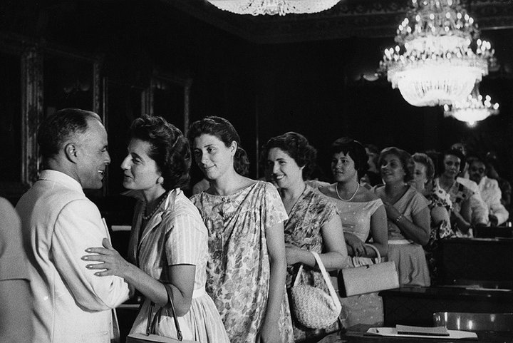 Wives of Tunisian personalities (in this case Jalila Hafsia) greeting Habib Bourguiba at the Bardo Palace, on July 25th, 1957, the day republic is proclaimed